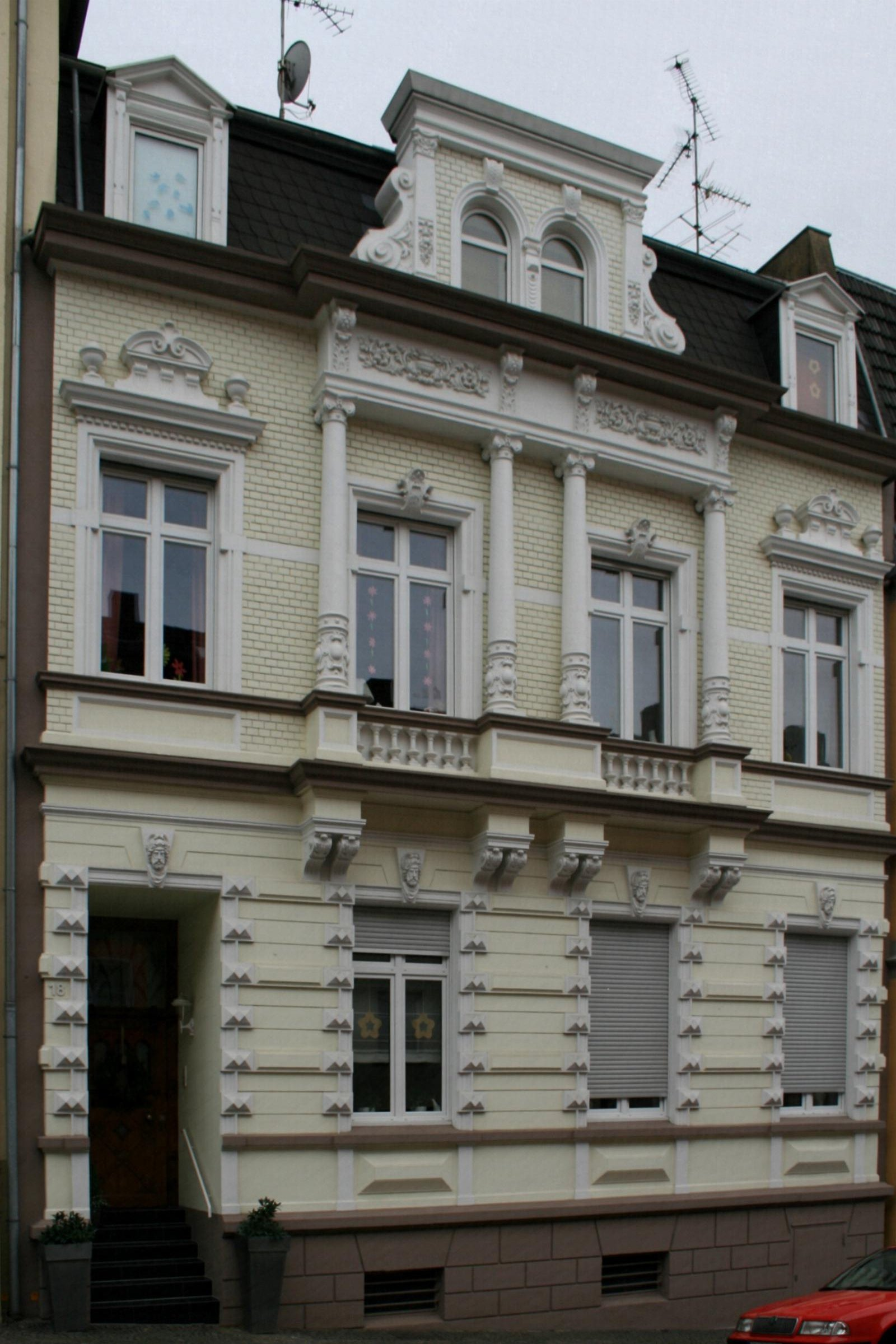 Cultural heritage monument No. B 033 in Mönchengladbach